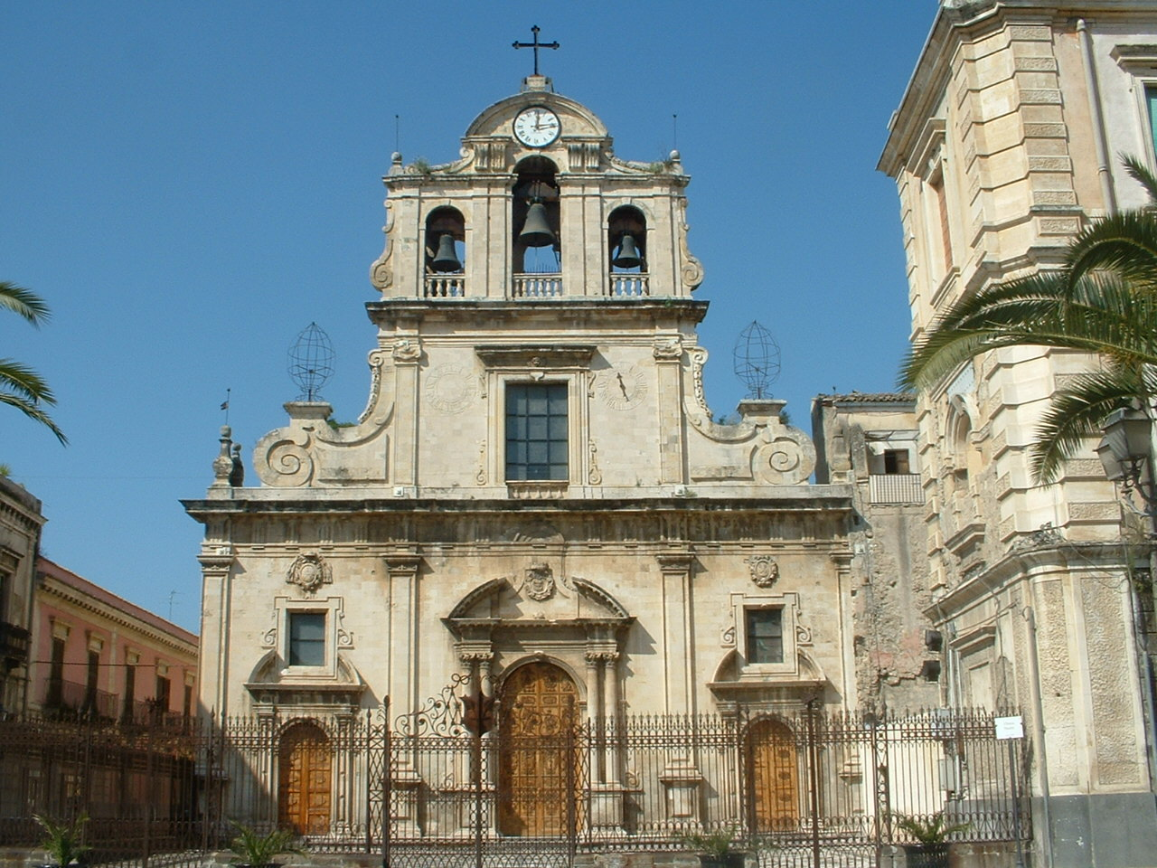 Lentini, façade of the Parish Church of St Maria la Cava and St Alfius (1693).